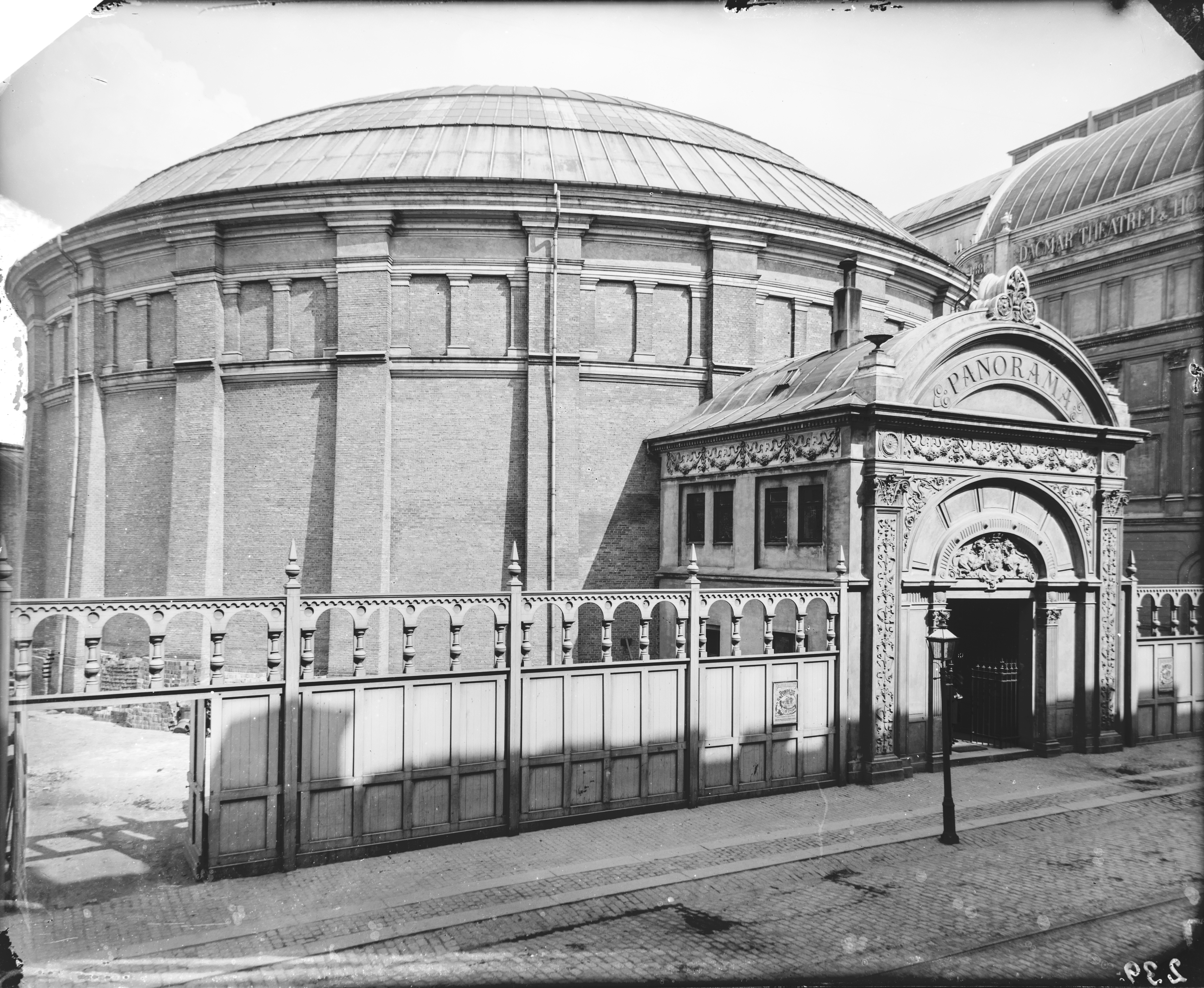 Panorama museum (1882-97) in Copenhagen, Denmark